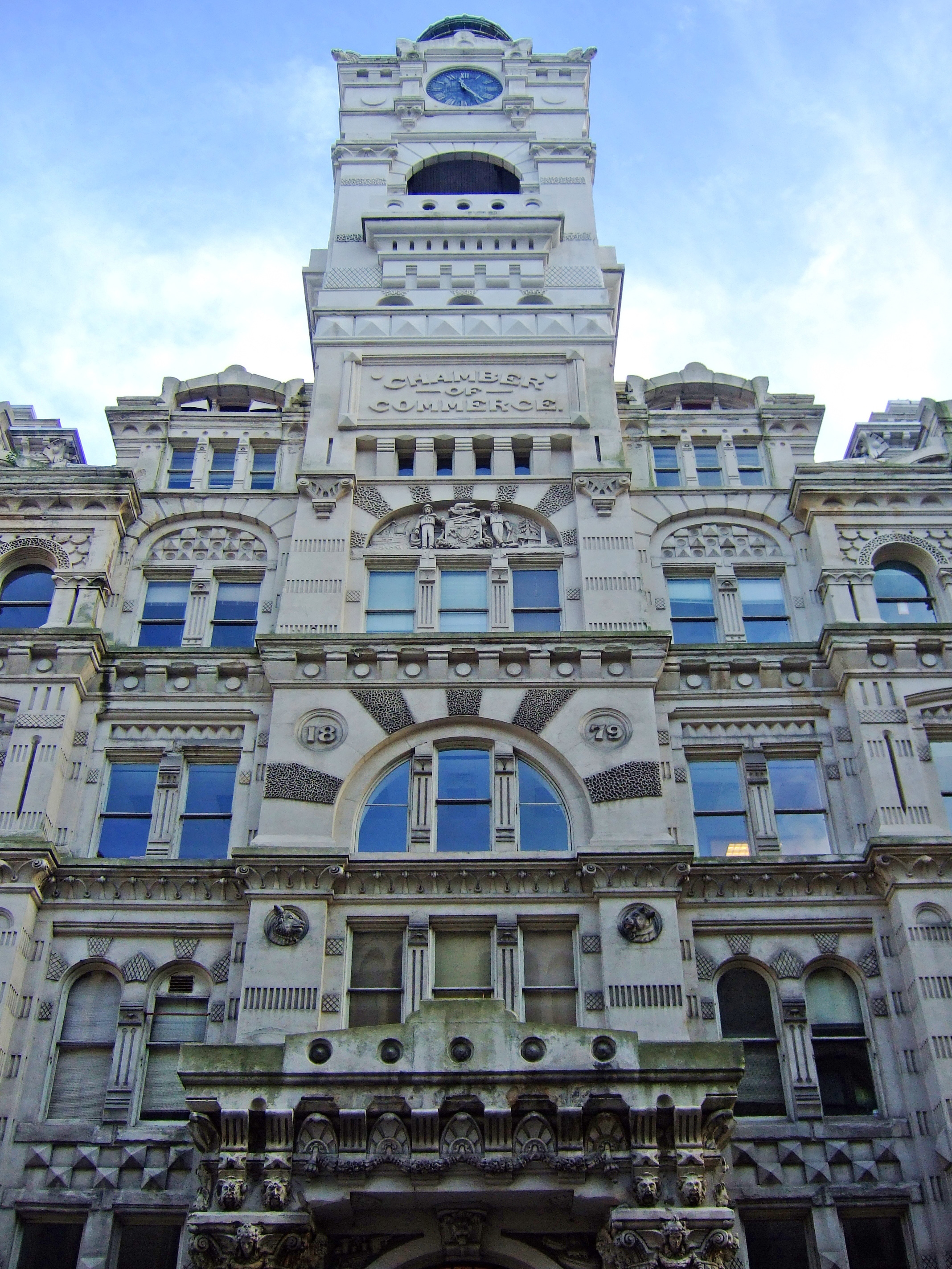 The former Chamber of Commerce in downtown Milwaukee, Wisconsin, also known as the Produce or Grain Exchange, built in 1879, was for a time the world's largest wheat exchange and is now a private commercial building. Designed by E. Townsend Mix as a fireproof building in an eclectic style that combined an Italian Renaissance interior with an exterior variously described as Modern Italian or typical of Glasgow or Edinburgh, it has a basement level covered with Minnesota granite, higher masonry of Ohio sandstone, and Cream City brick. Its clock tower rises to a height of 175 feet.